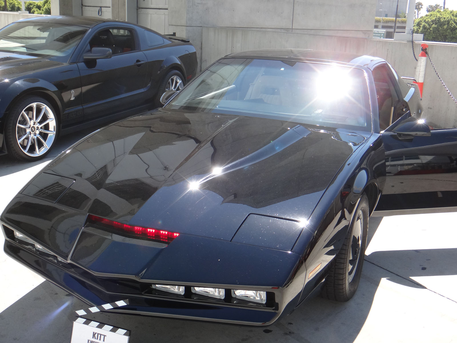 PopCon 2012 - Knight Rider